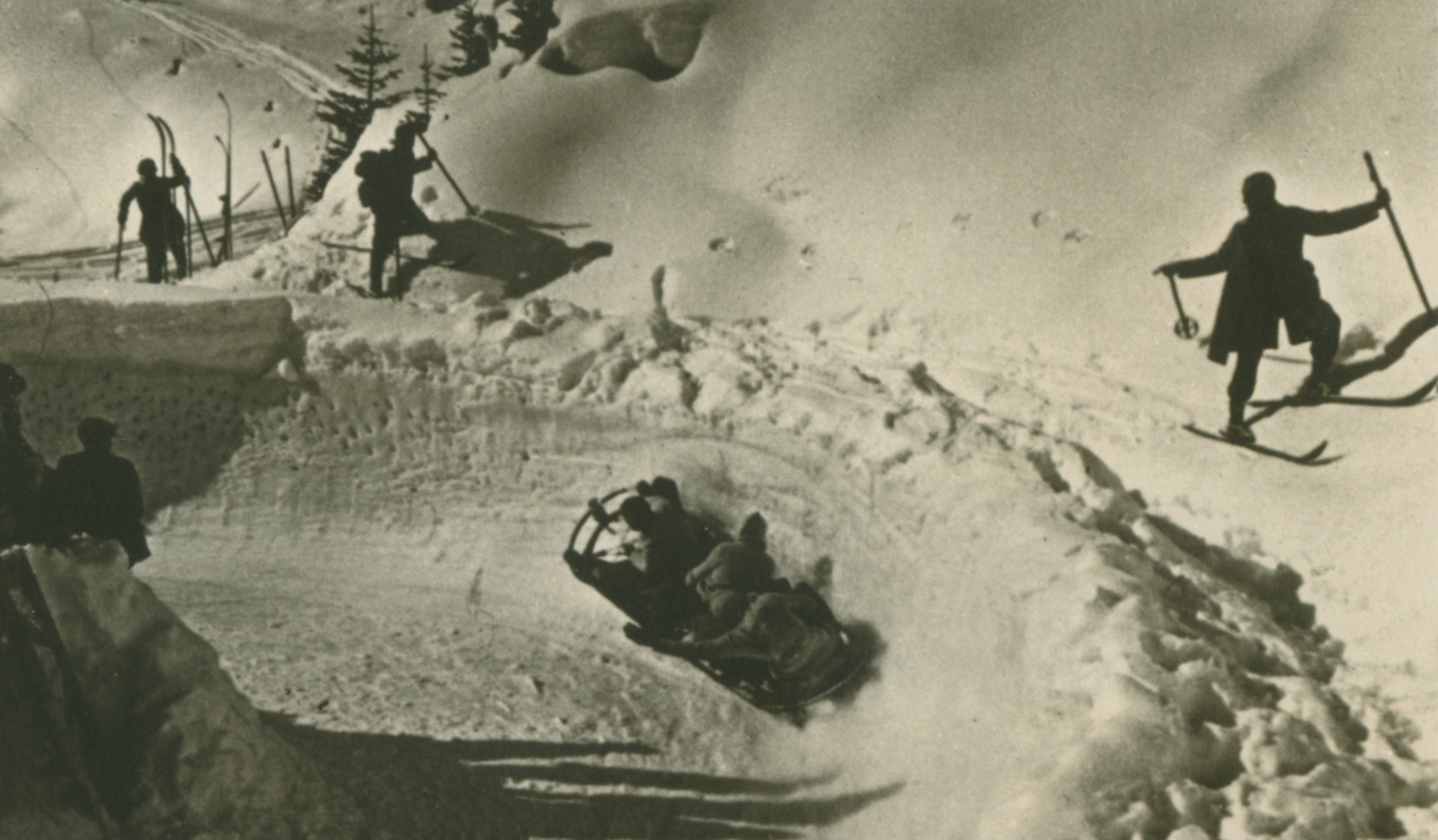 race on bobsleigh and luge run Arosa, Switzerland